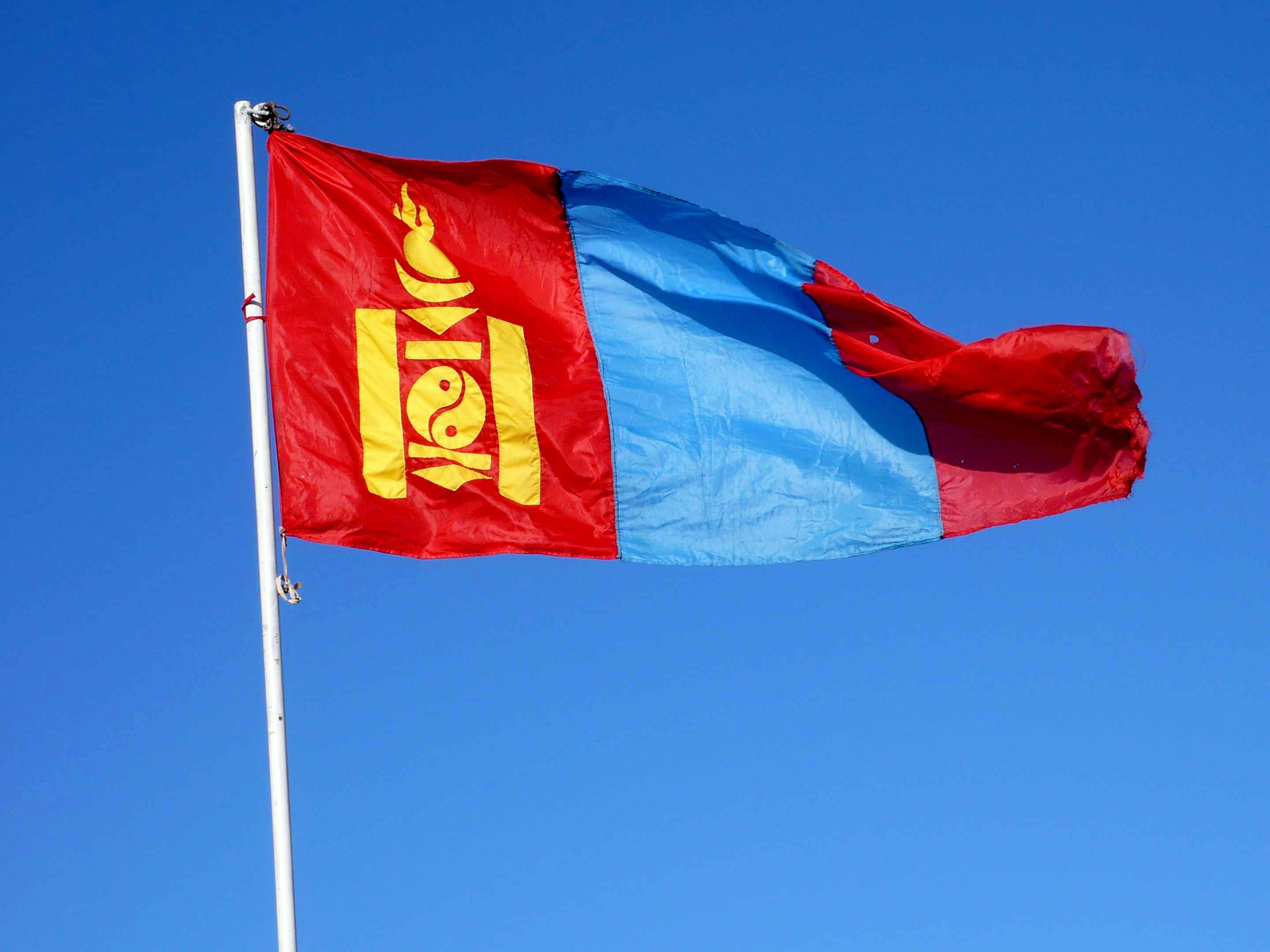 Flag of Mongolia